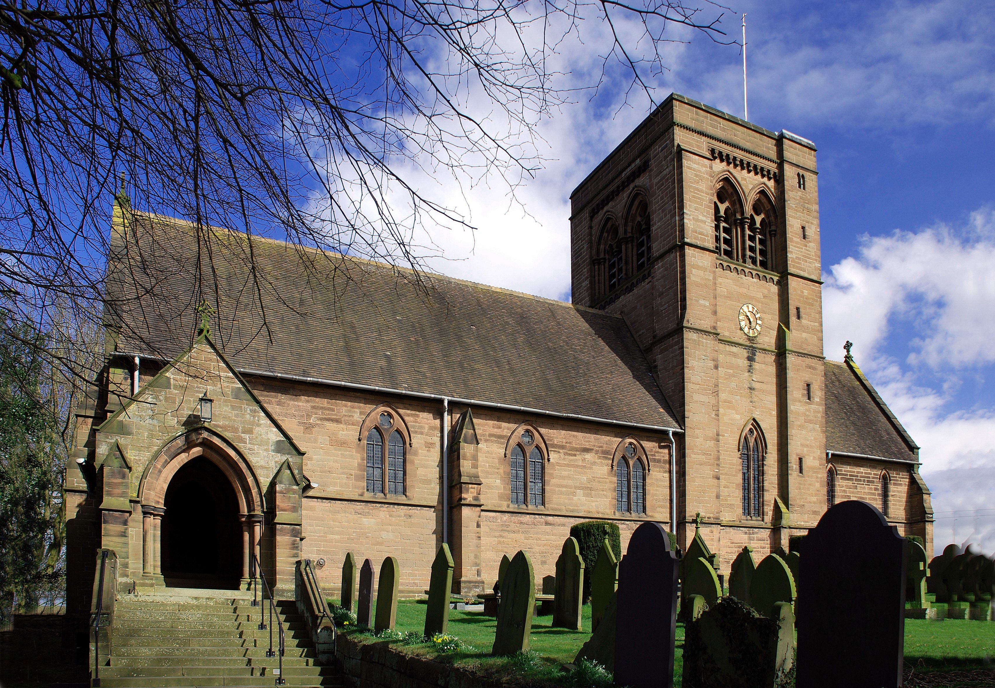 St John the Evangelist's Church, Norley Wikidata has entry Q7593788 with data related to this item.